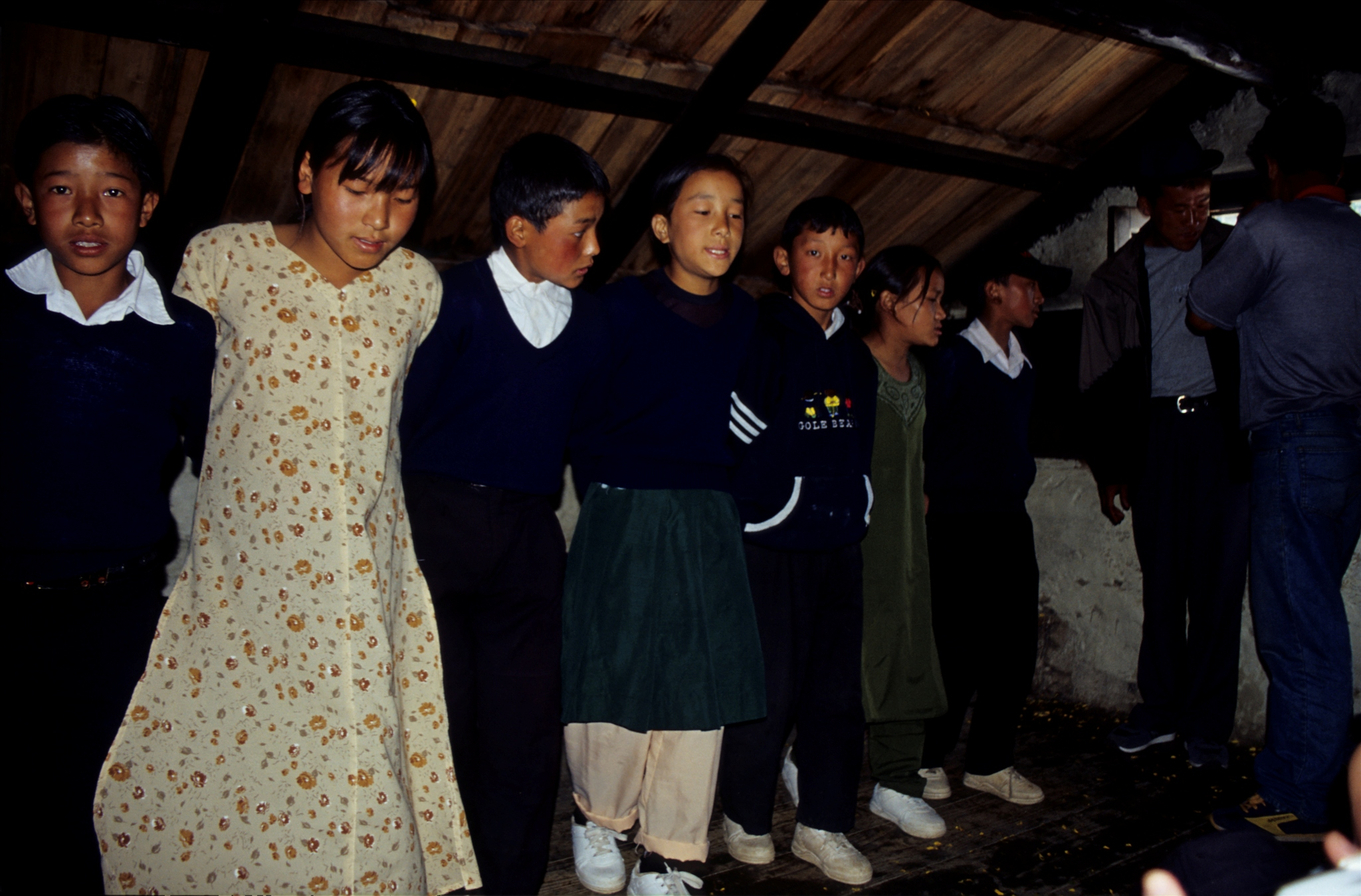 Pupils at countryside local school in Nepal practice dancing for an upcoming event. Picture taken 2001.